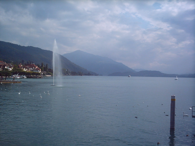 Lake Zug. DF08 2004 image.